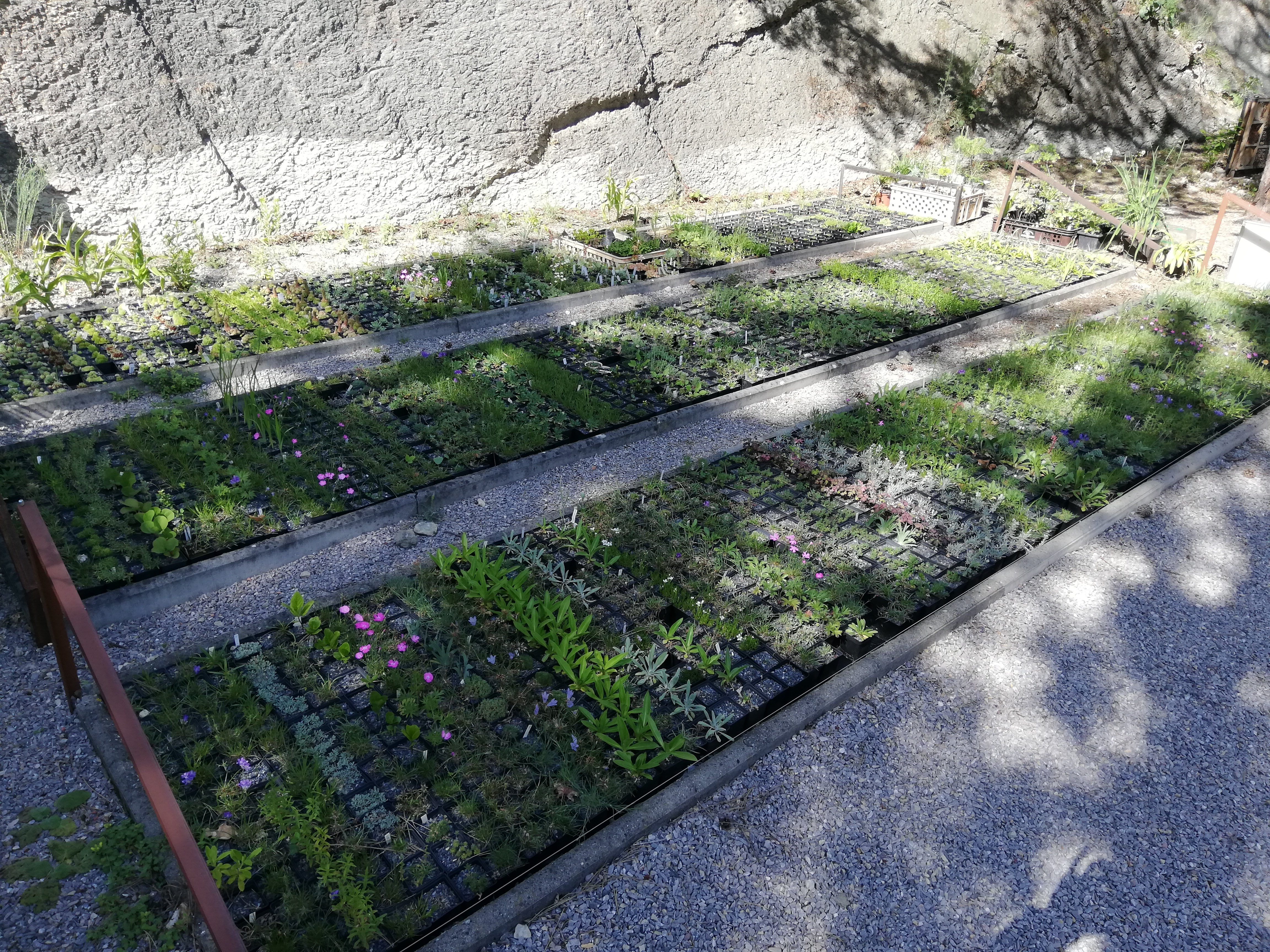 Internal area of The Rock Garden in Hlubočepy (Prague, Czech republic)